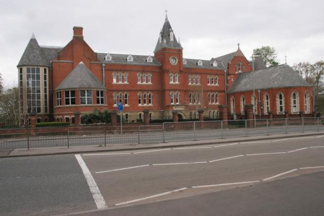 Farnborough. The rather magnificent office block in the northwest corner of the square - an old building which has undergone substantial conversion work.